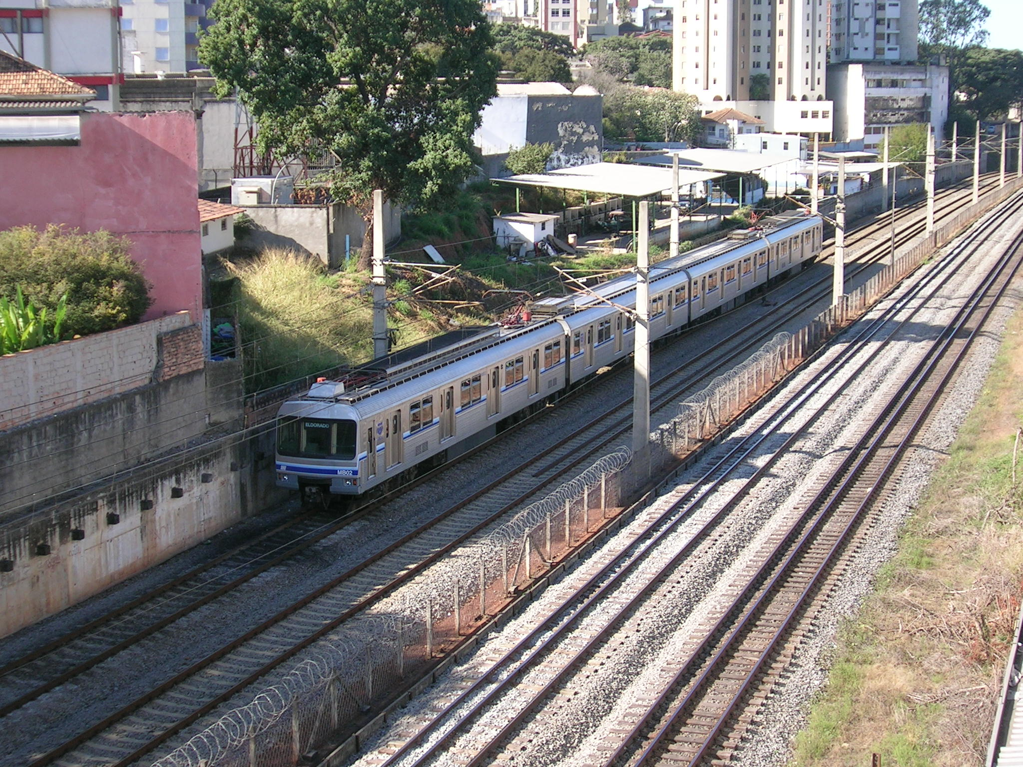 Belo Horizonte metro train between Central and Santa Efigênia stations